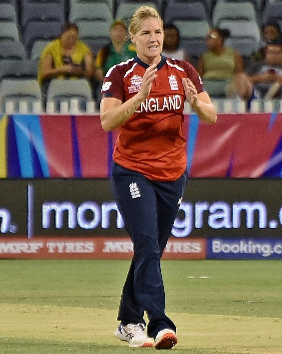 Katherine Brunt walking back to her mark while bowling for England against South Africa during their 2020 ICC Women's T20 World Cup match at the WACA Ground in Perth, Australia